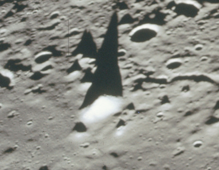 Oblique view of Mons Herodotus casting a long shadow, on the moon, facing west.